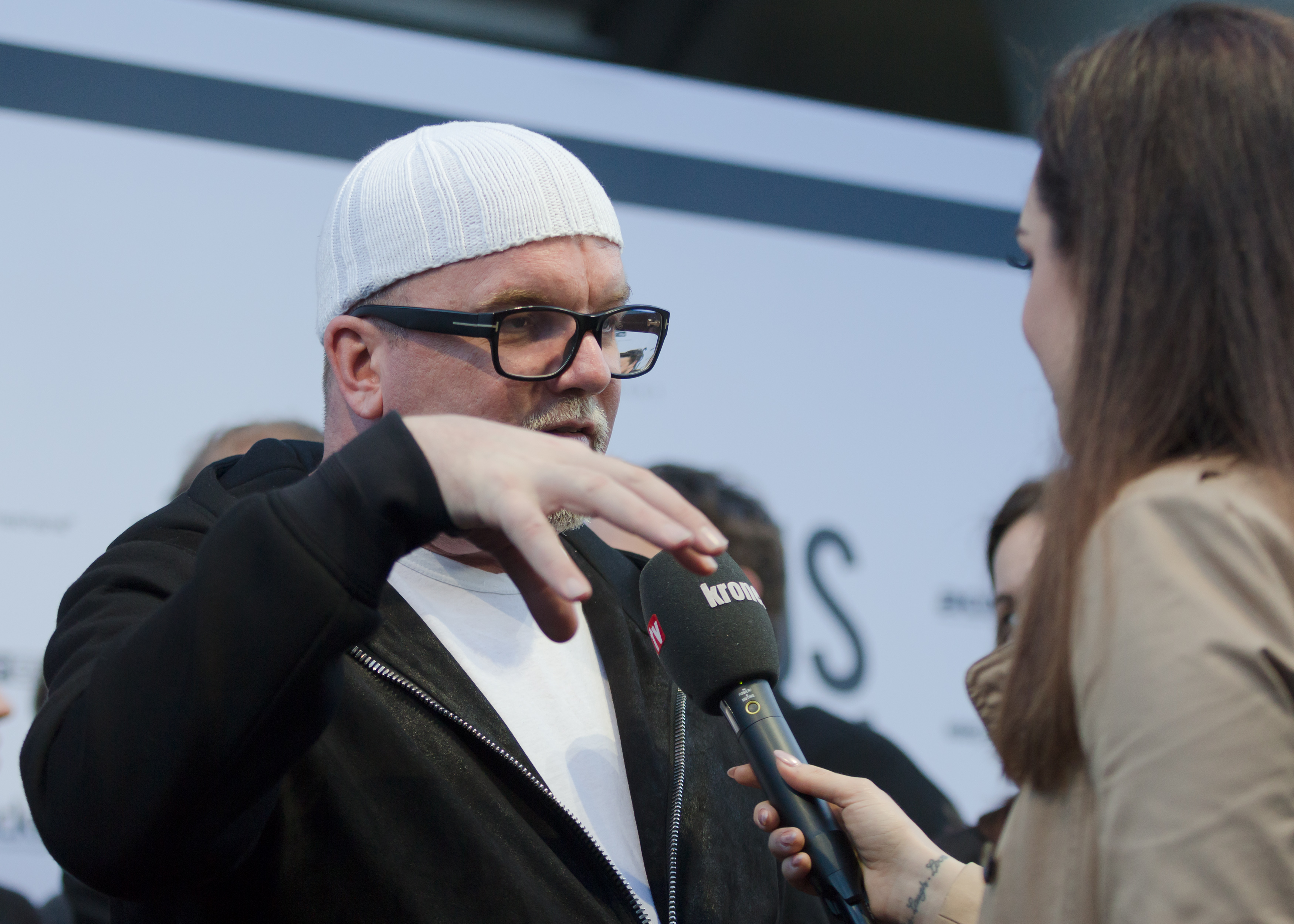 DJ Ötzi at the Amadeus Austrian Music Award 2017 at Volkstheater in Vienna.